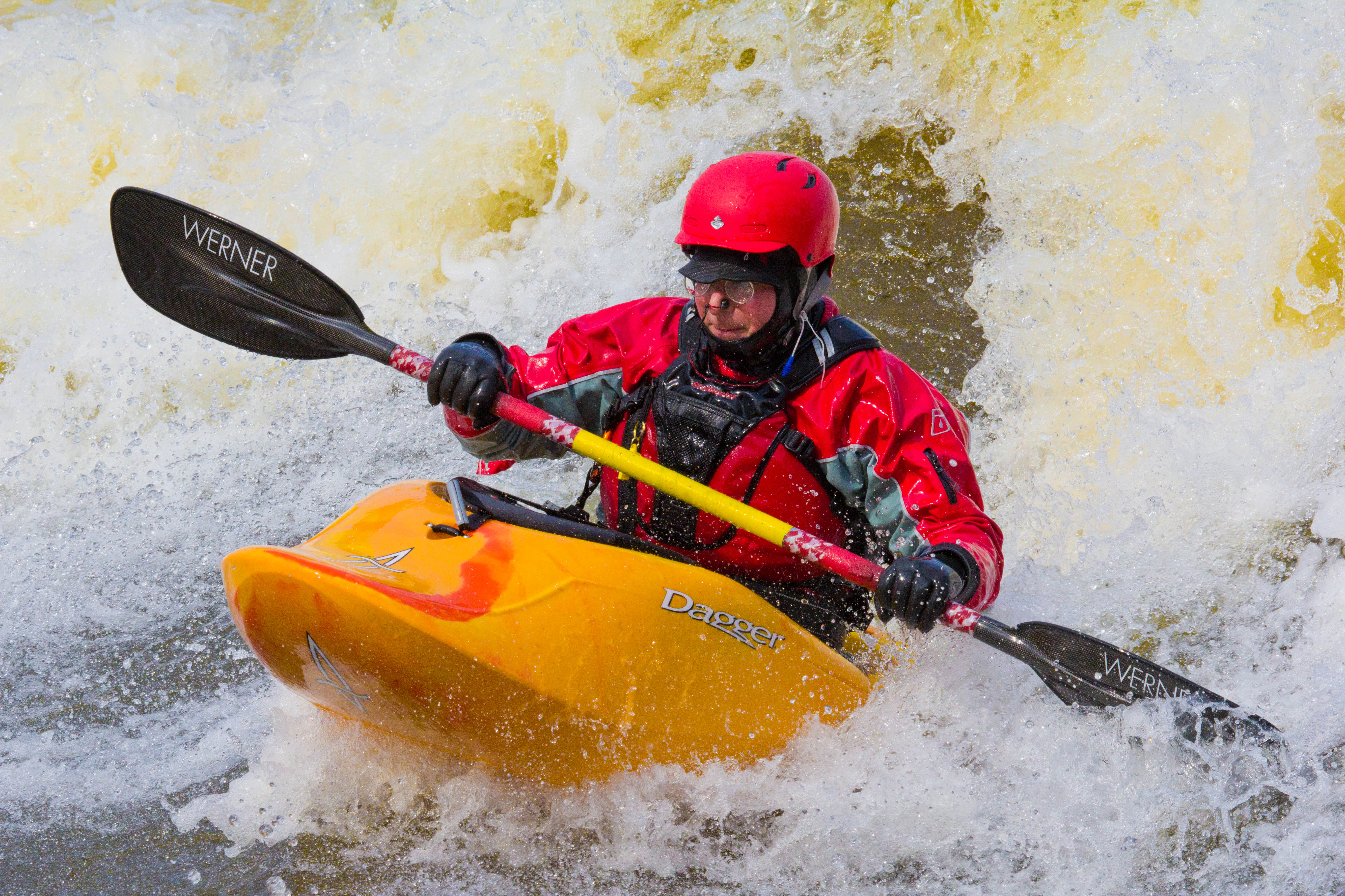 Remic Rapids, Ottawa, ON